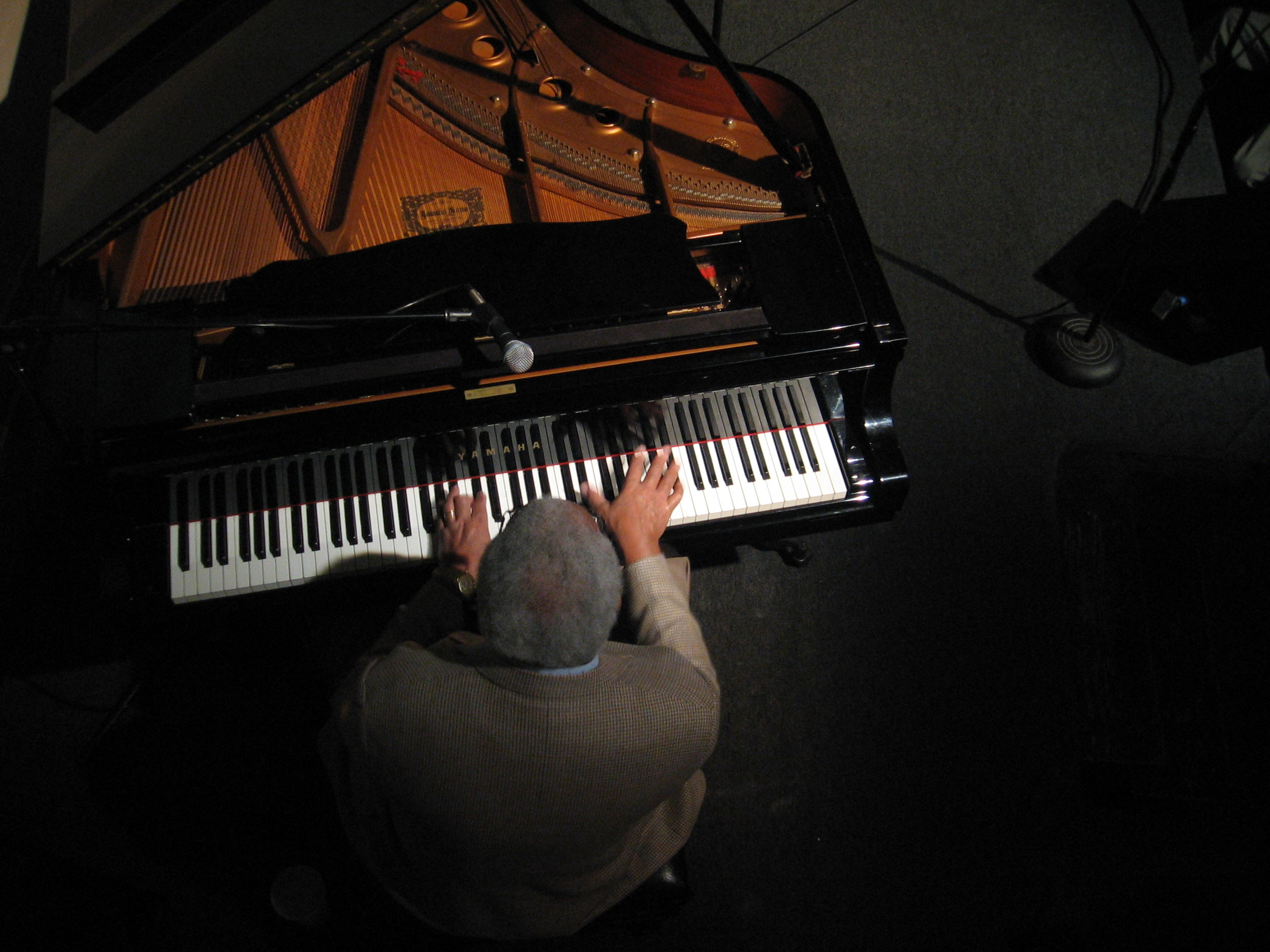 Jazz pianist Ellis Marsalis, Jr. performing at the New Orleans, Louisiana club "Snug Harbor".